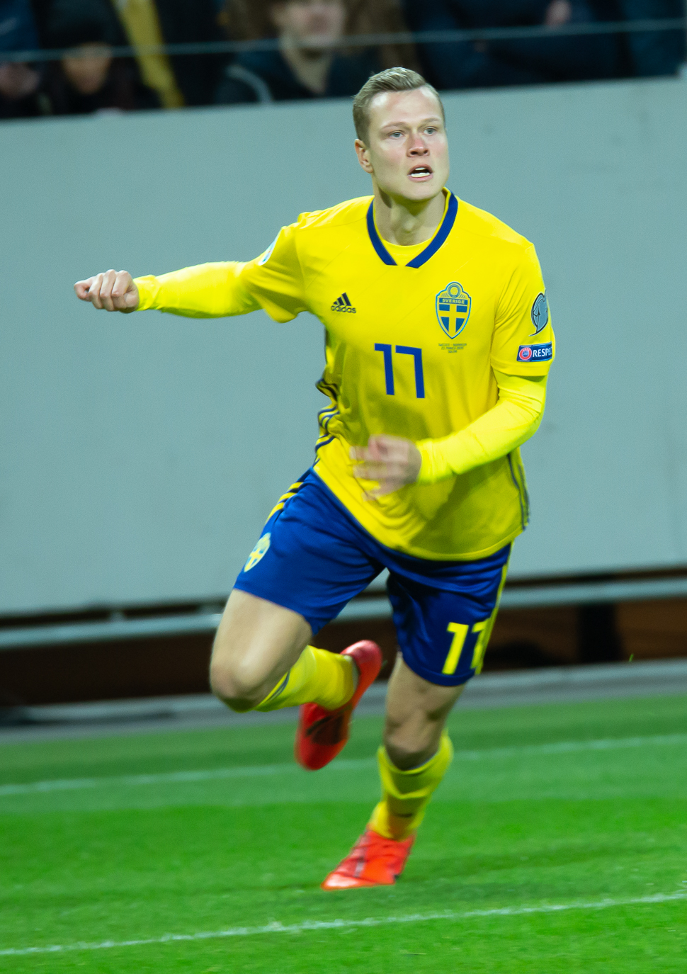 UEFA EURO qualifiers Sweden vs Romaina 20190323